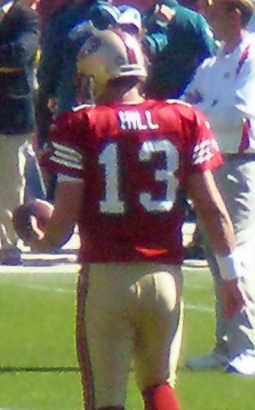 San Francisco 49ers quarterback Shaun Hill warming up on Bill Walsh Field at Candlestick Park prior to a regular season game against the Philadelphia Eagles. The Eagles won 40-26.